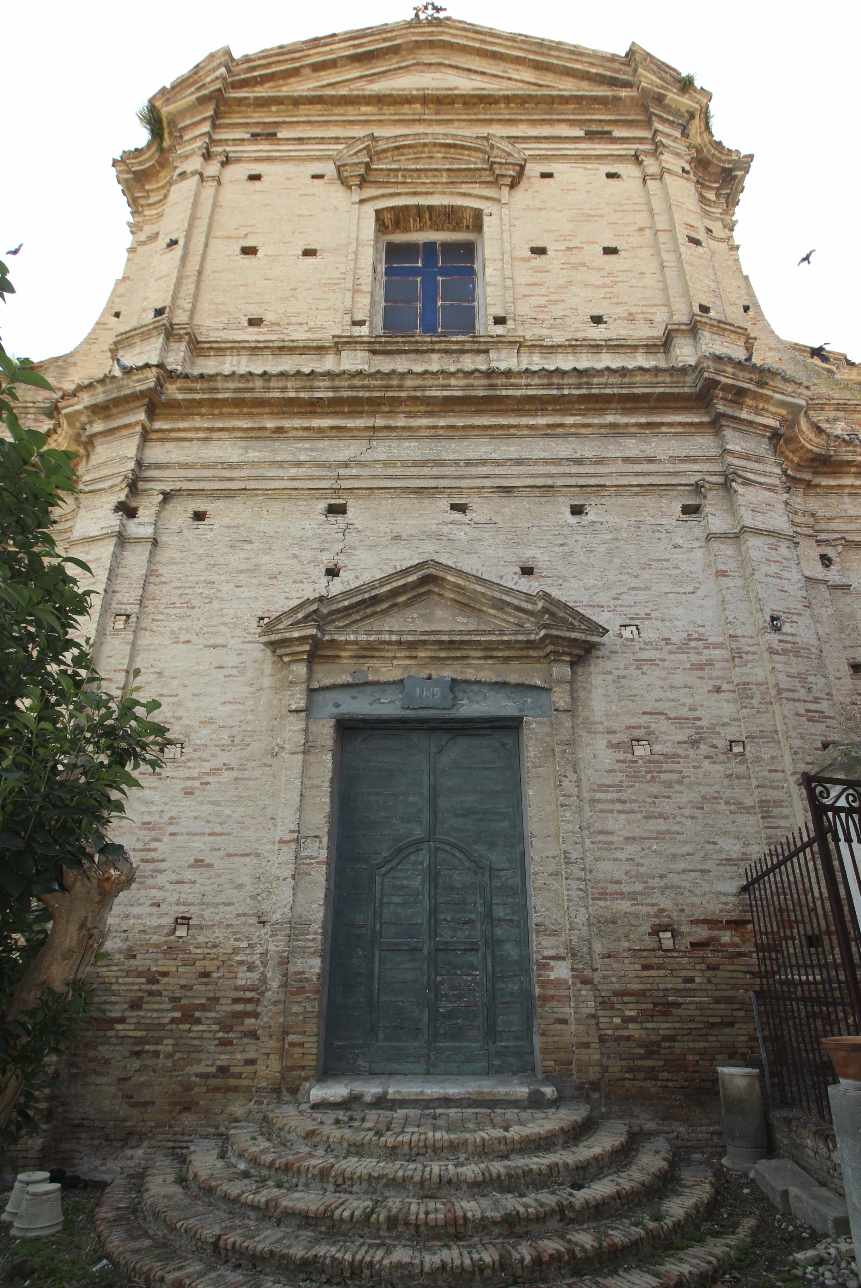 church San Bernardo, Città Sant'Angelo, Province of Pescara, Abruzzo, Italy